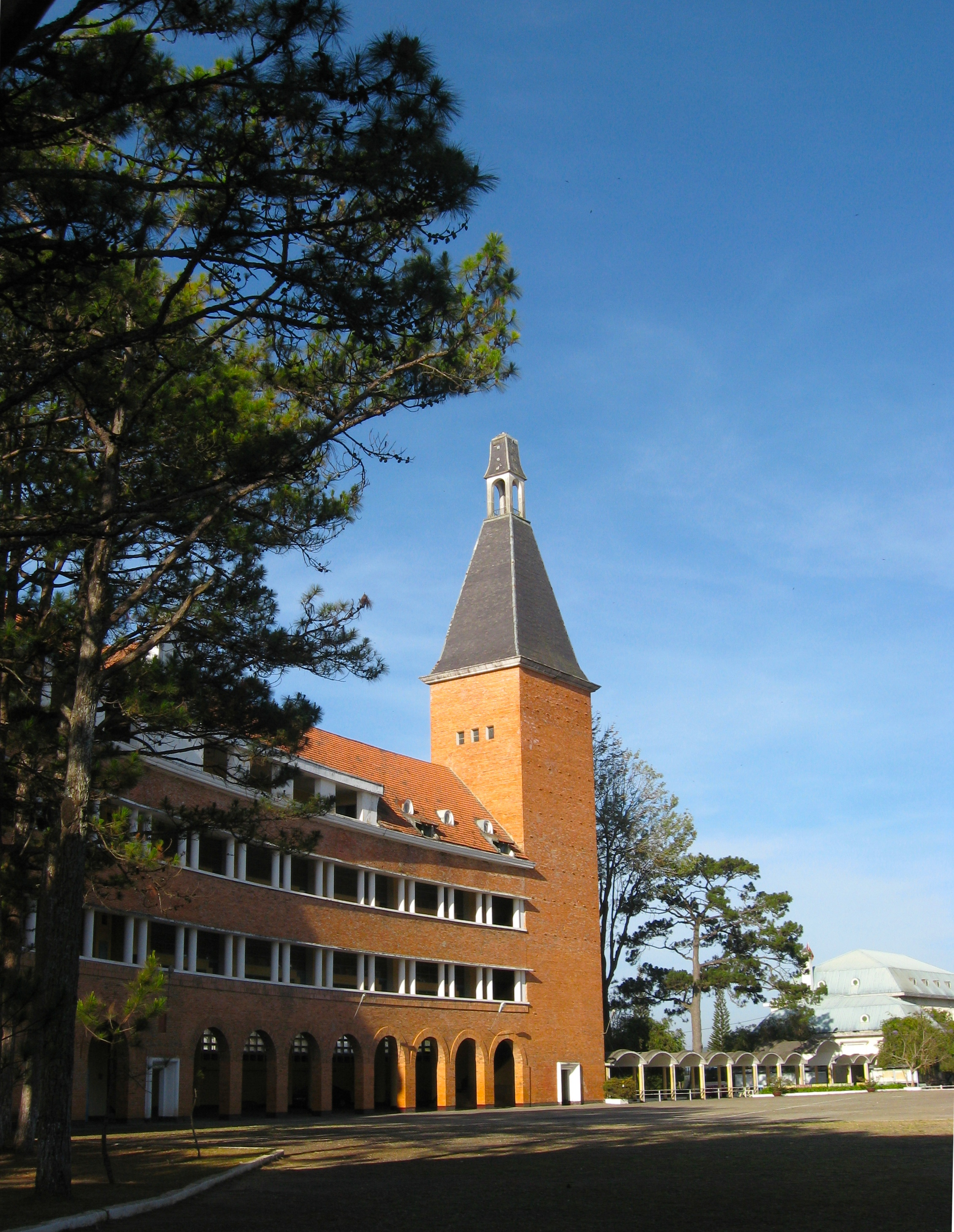 Pedagogical College of Da Lat